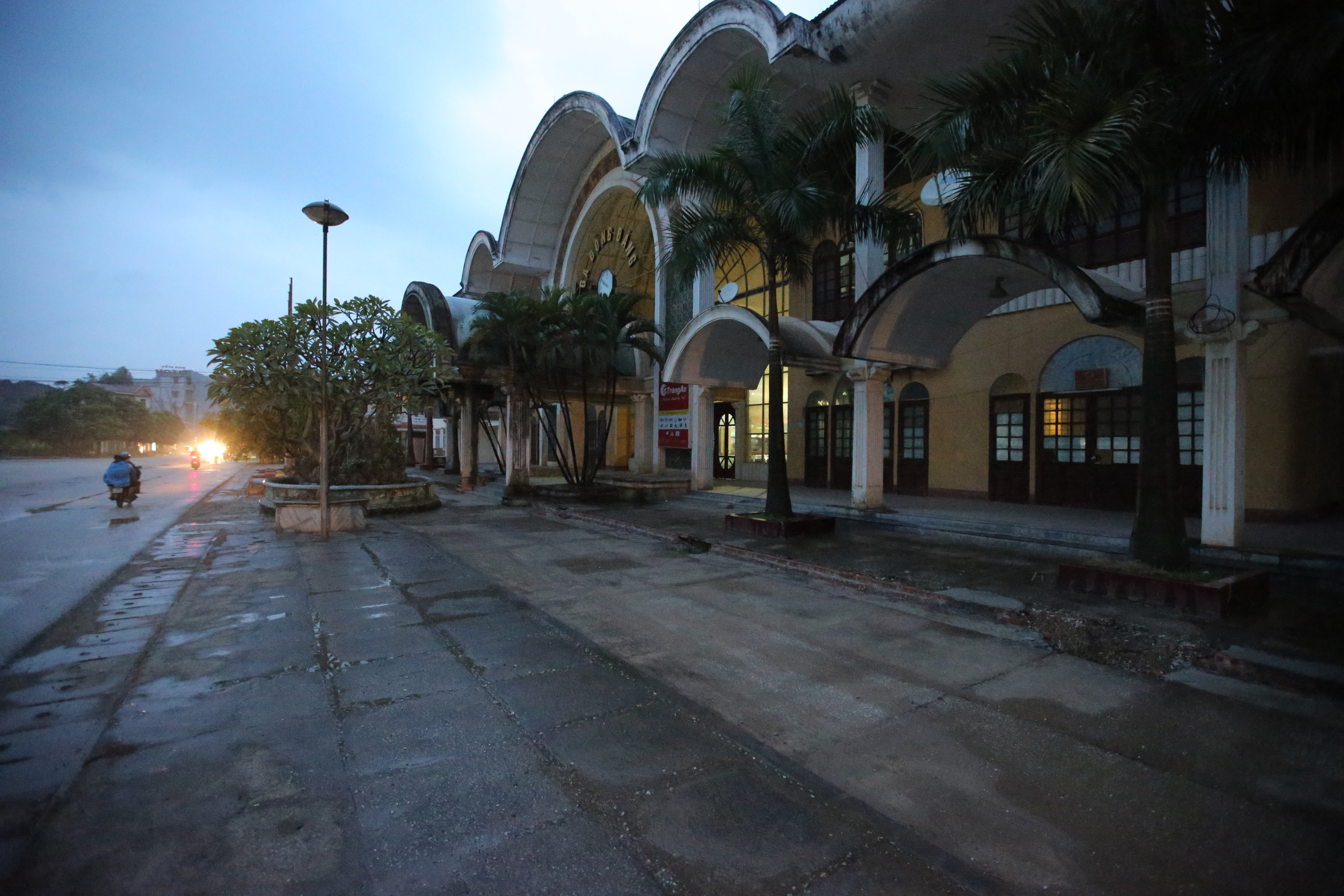 Đồng Đăng Railway Station building, outer side.